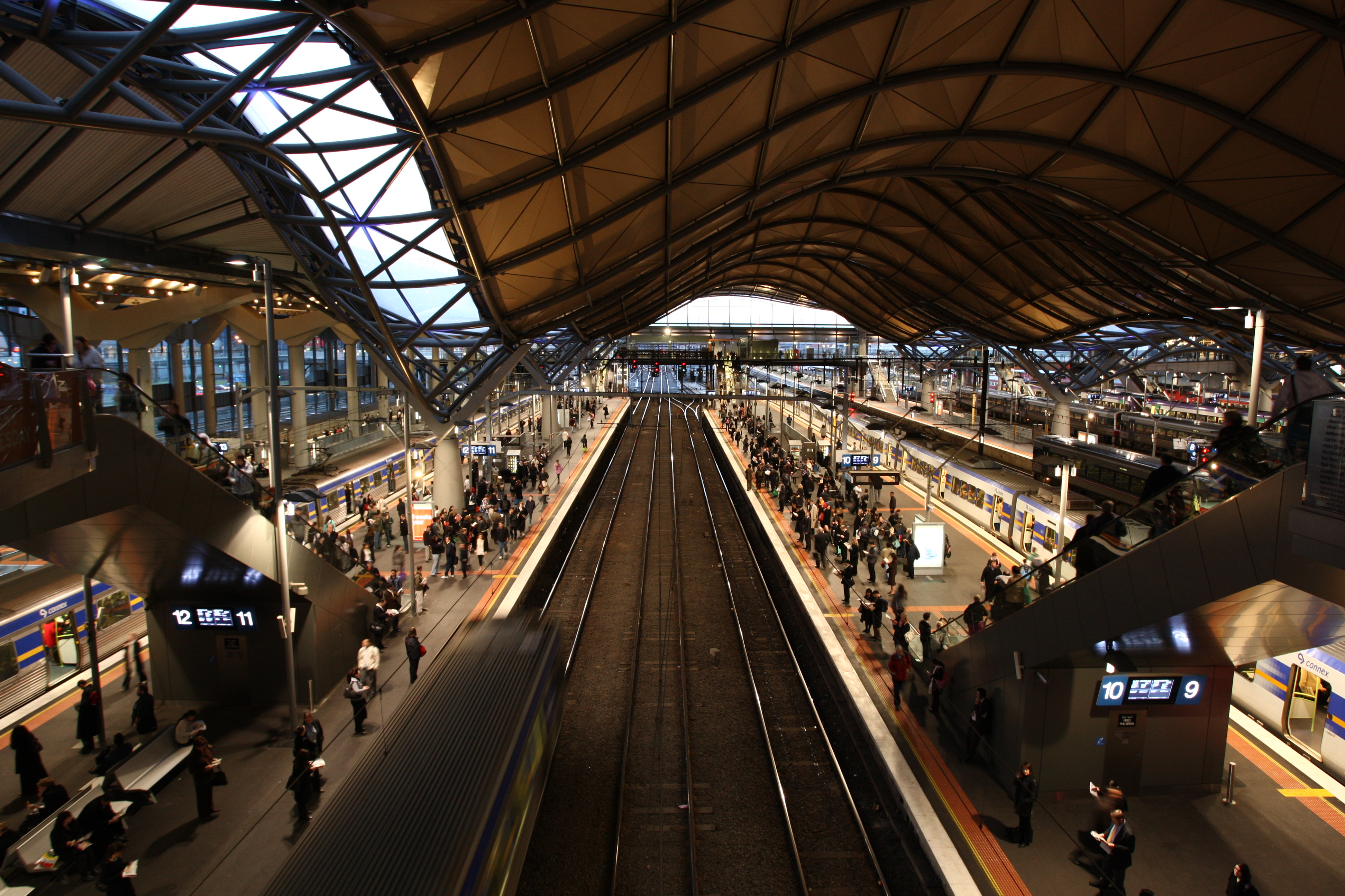 The platforms for Melbourne's suburban train system at Southern Cross Station